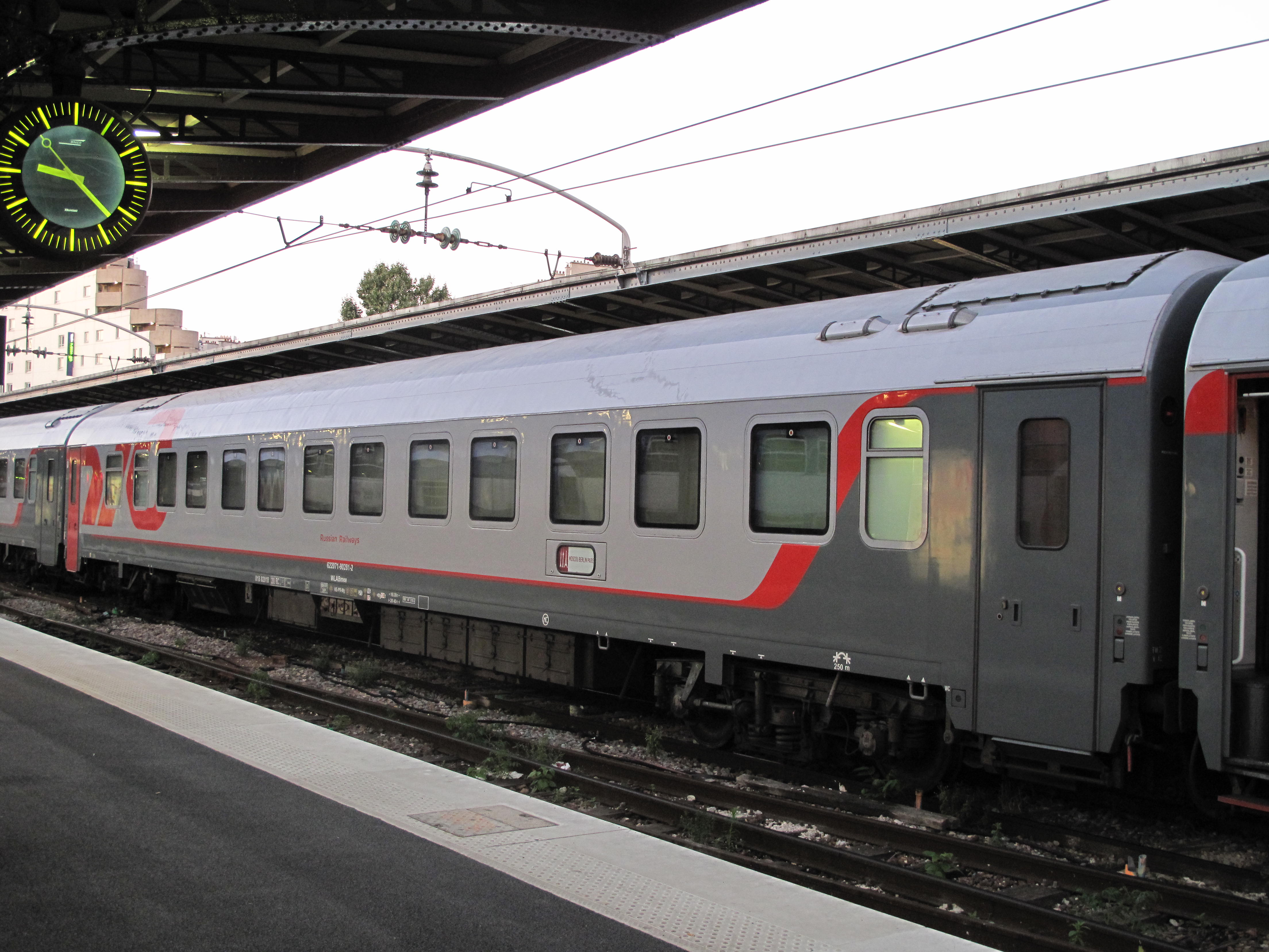 Coach of the train Moscow-Berlin-Paris, gare de Paris-Est.